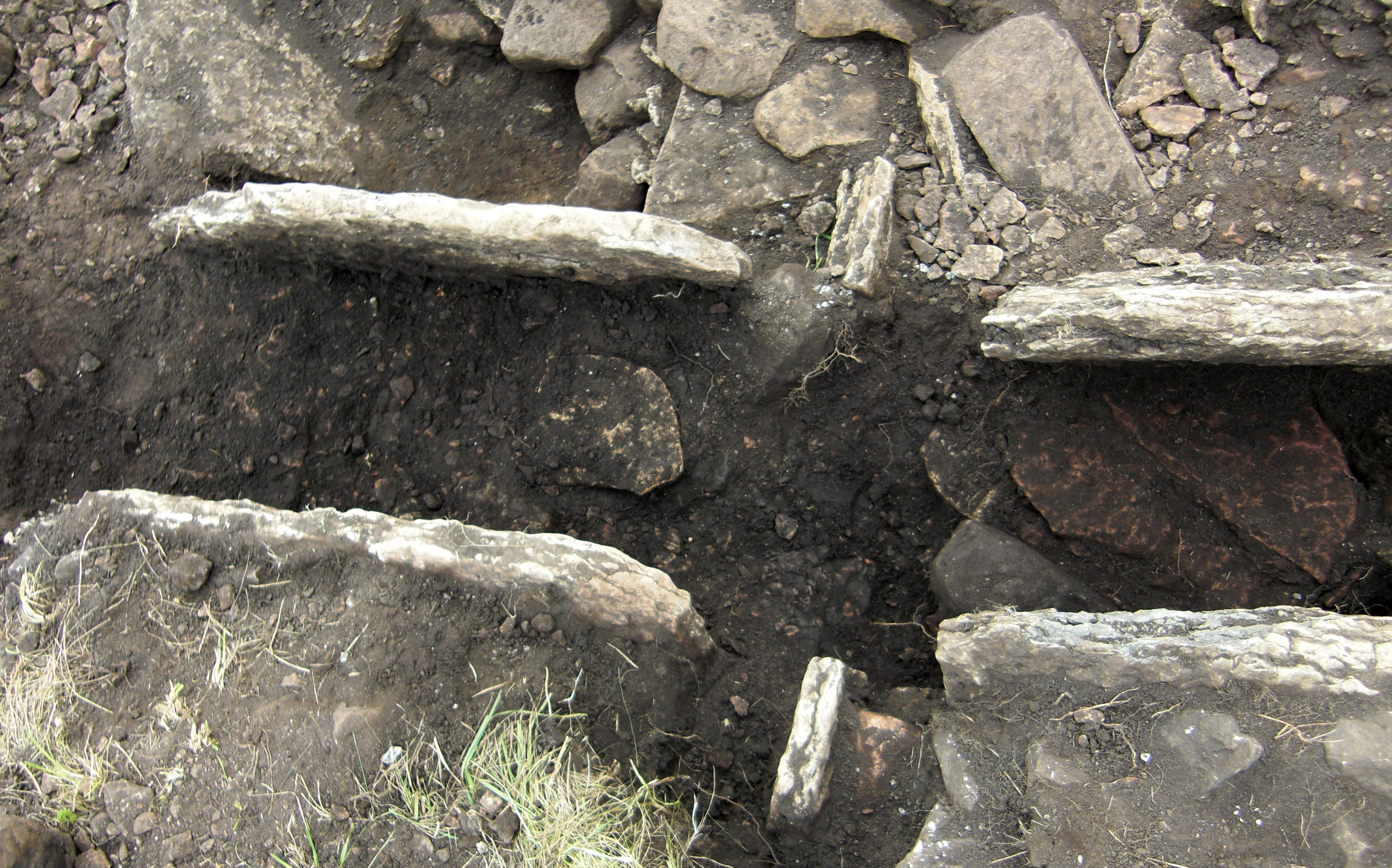 The Neolithic passage grave Firse sten (RAÄ number Falköpings Östra 1:1) during an excavation in September 2008. The passage grave is situated just outside Falköping, Västergötland, Sweden.